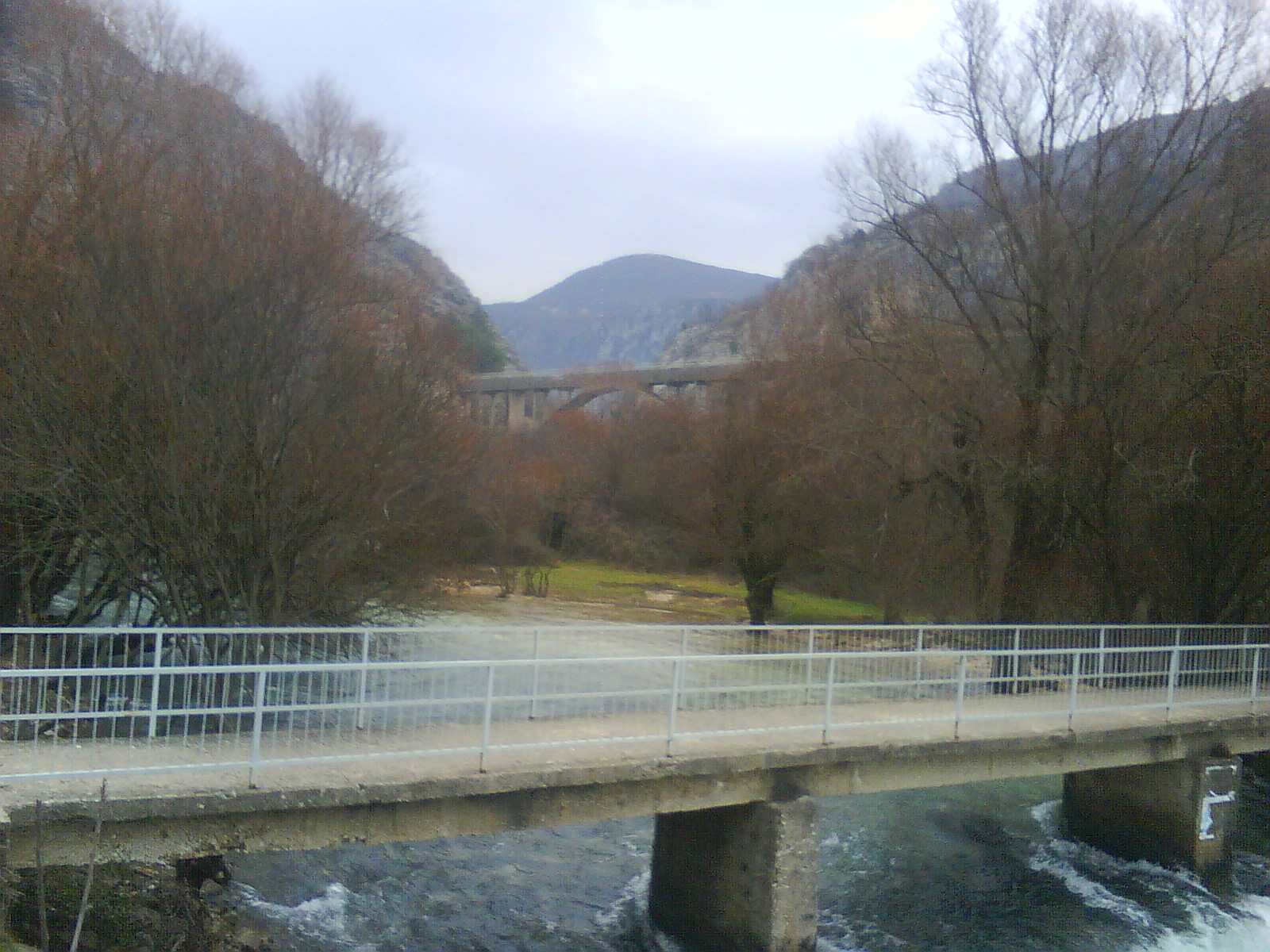 Bridge over Lištica river in Široki Brijeg